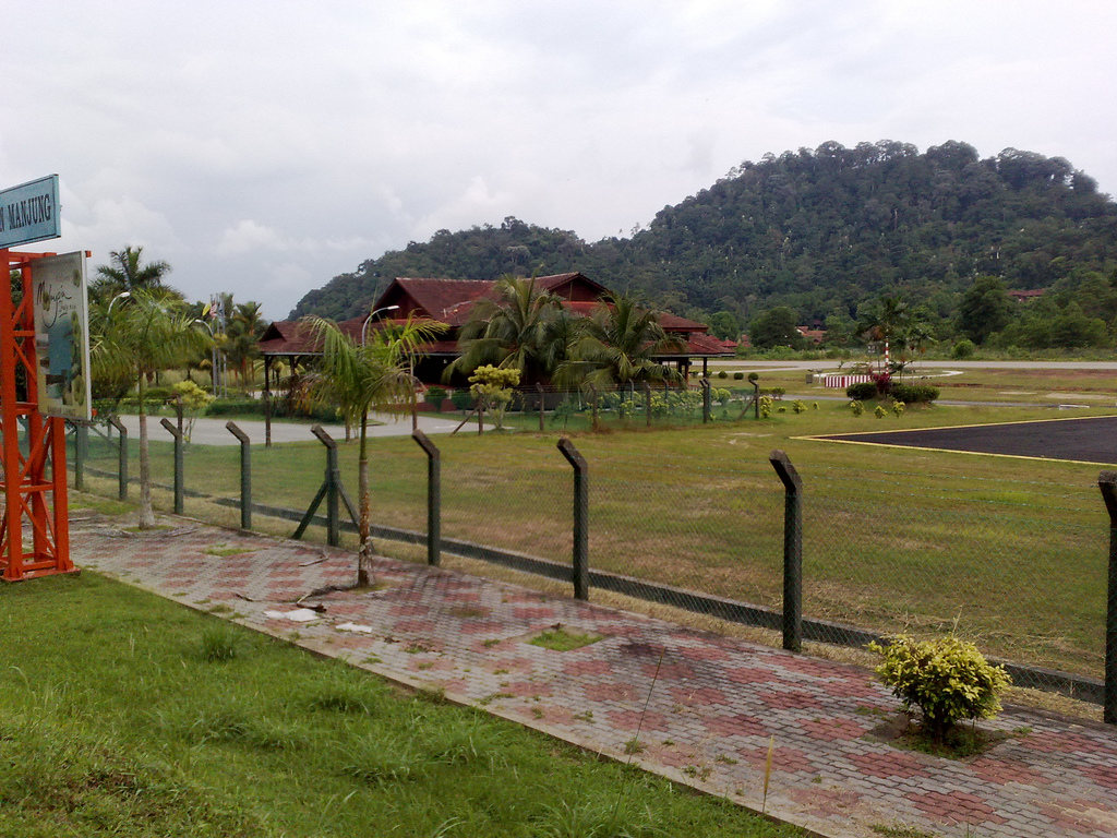 Image of the Pangkor Airport terminal at Pangkor Island, Malaysia. Taken on 16th December 2008.